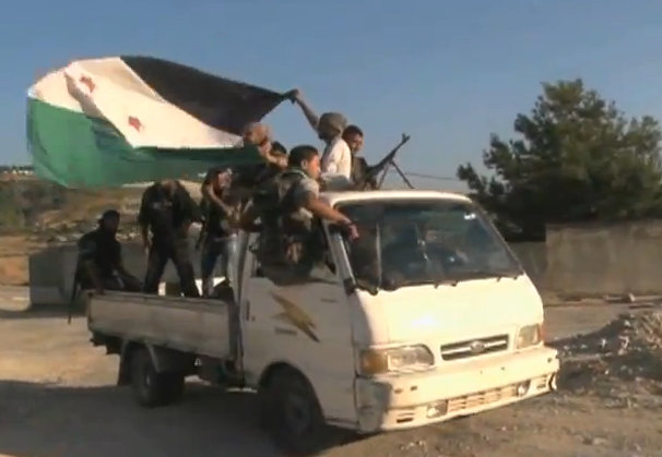 Free Syrian Army soldiers being transported by pick up truck (20 August 2012).